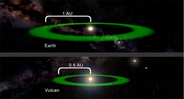 Comparison of the habitable zone of 40 Eridani with the habitable zone in our solar system. See also: 40 Eridani in fiction (Vulcan homeworld of Spock in Star Trek)